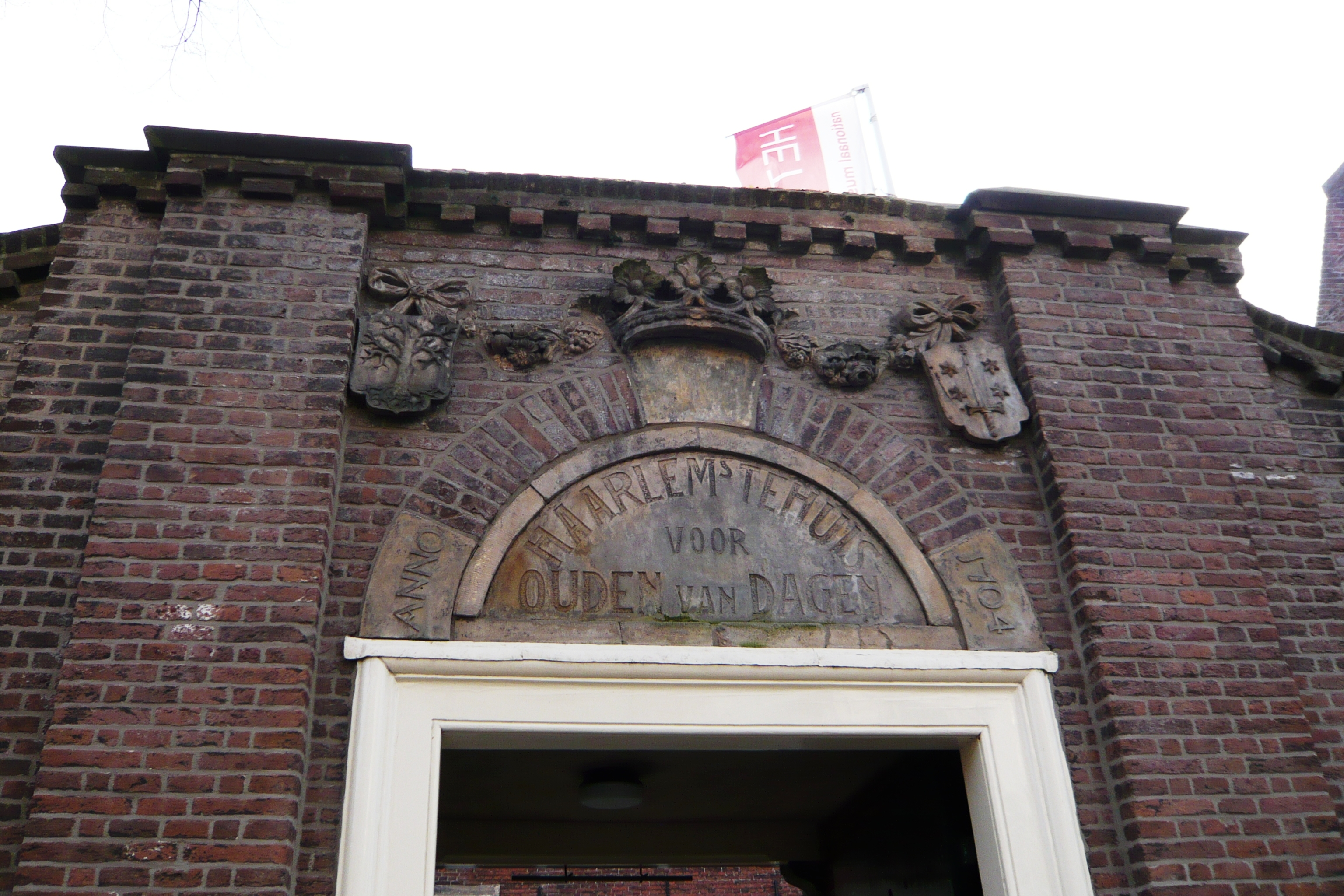 Keystone above the entrance of the museum 'Het Dolhuys' in Haarlem, the Netherlands. Originally a leper colony in the 14th century, it was a hospital for years until it was made into an old age home. Inscription states "Haarlems tehuis voor Ouden van Dagen, Anno 1704", meaning the old age home was founded in 1704. The Museum of Psychiatry is currently housed there and was founded in 2005. The old regent's room is currently undergoing restoration.